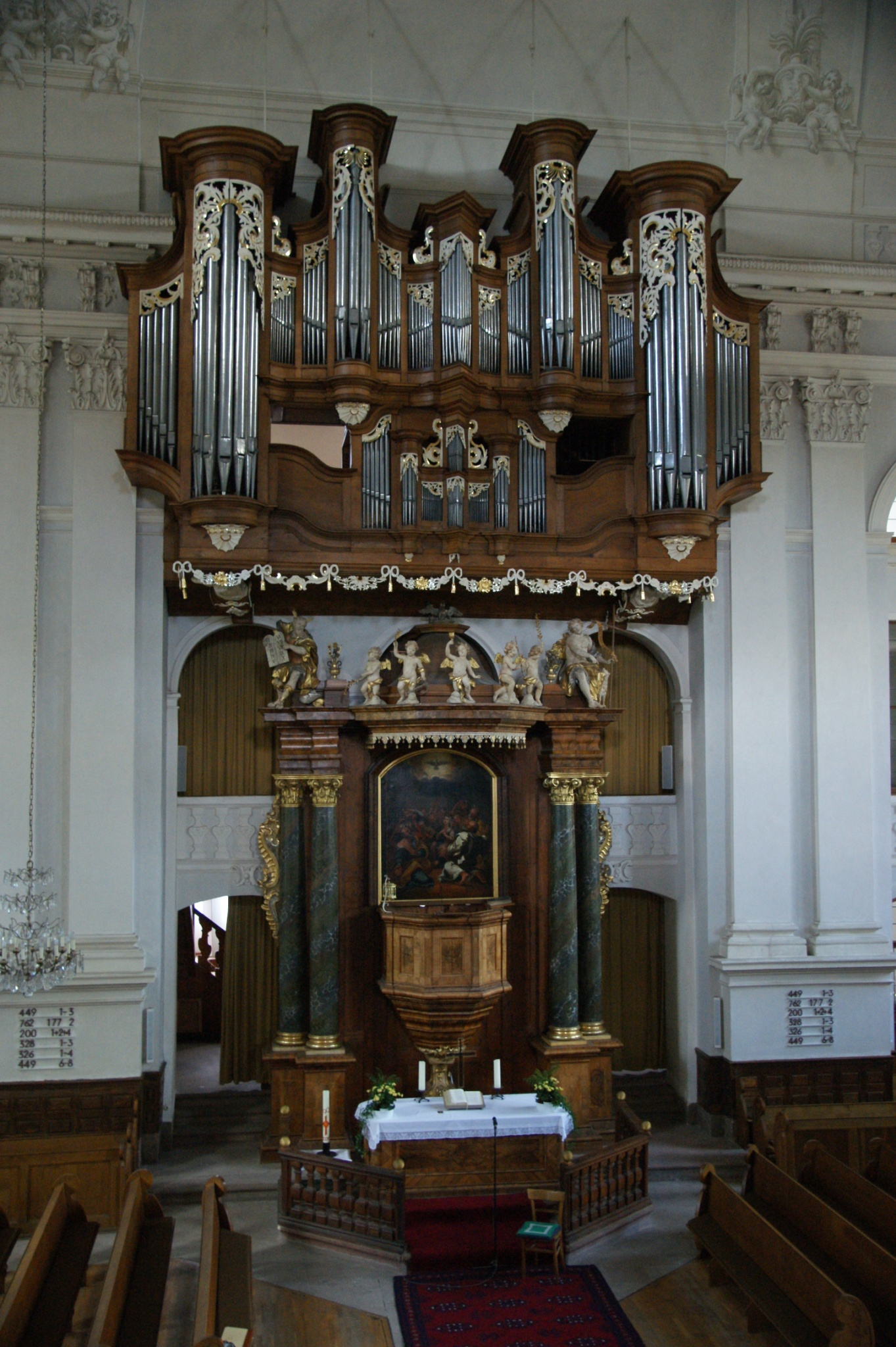 Flattr this!